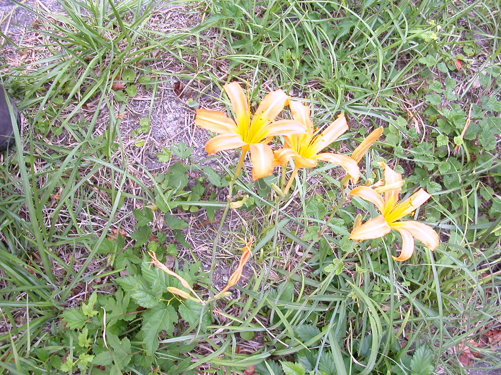 ハマカンゾウ Hemerocallis littorea(静岡県松崎、日本/Matsuzaki, Shizuoka pref. Japan)